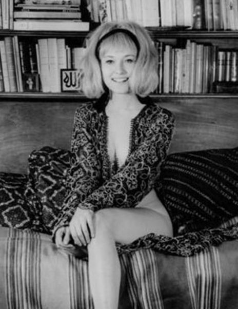 Christa Lang-Fuller in 1960s